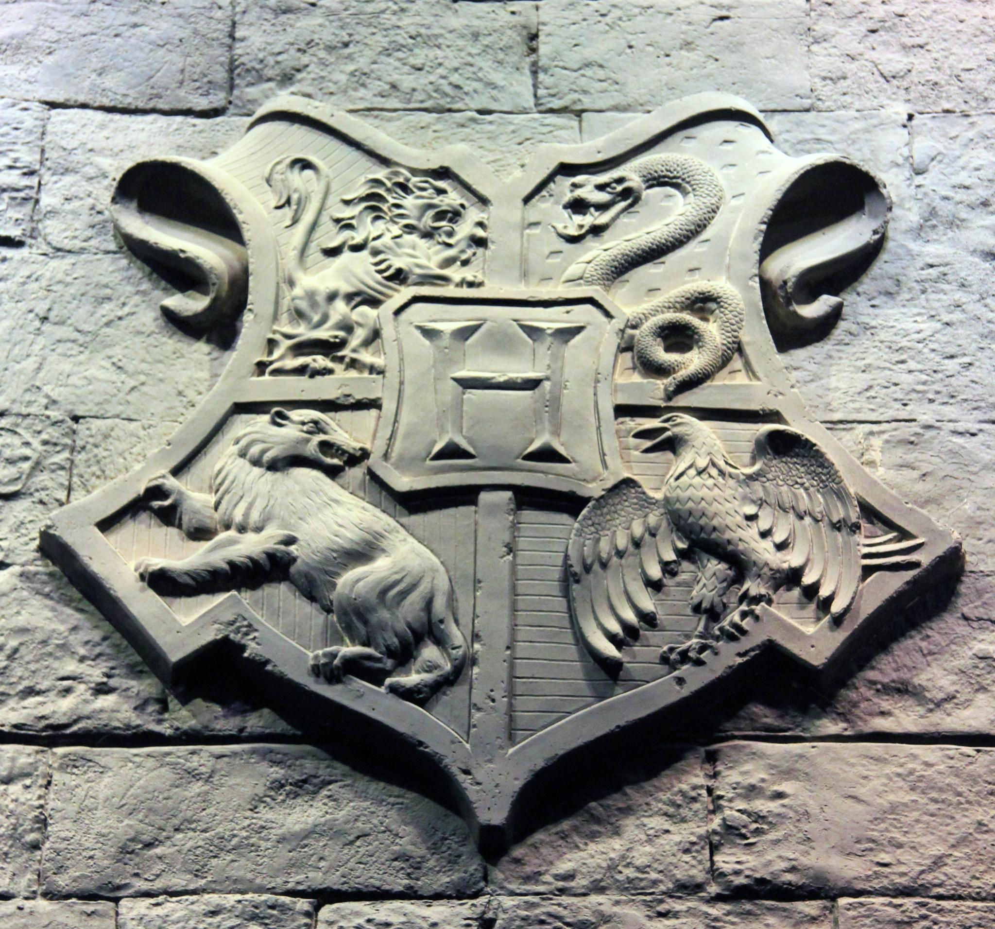 Warner Bros. Studio Tour London: The Making of Harry Potter.